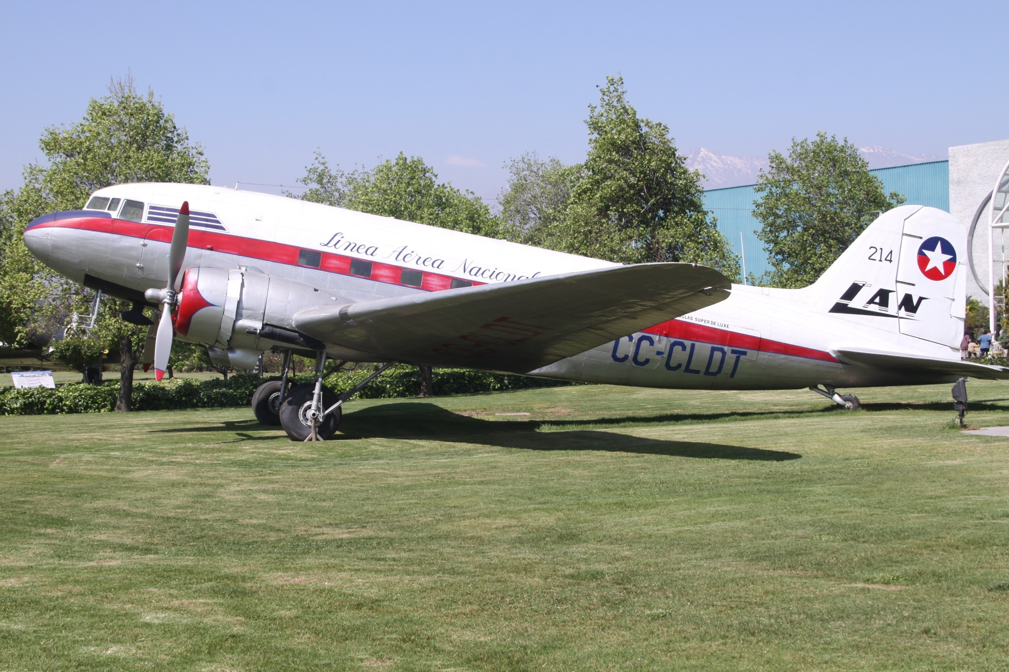 At Santiago Los Cerillos